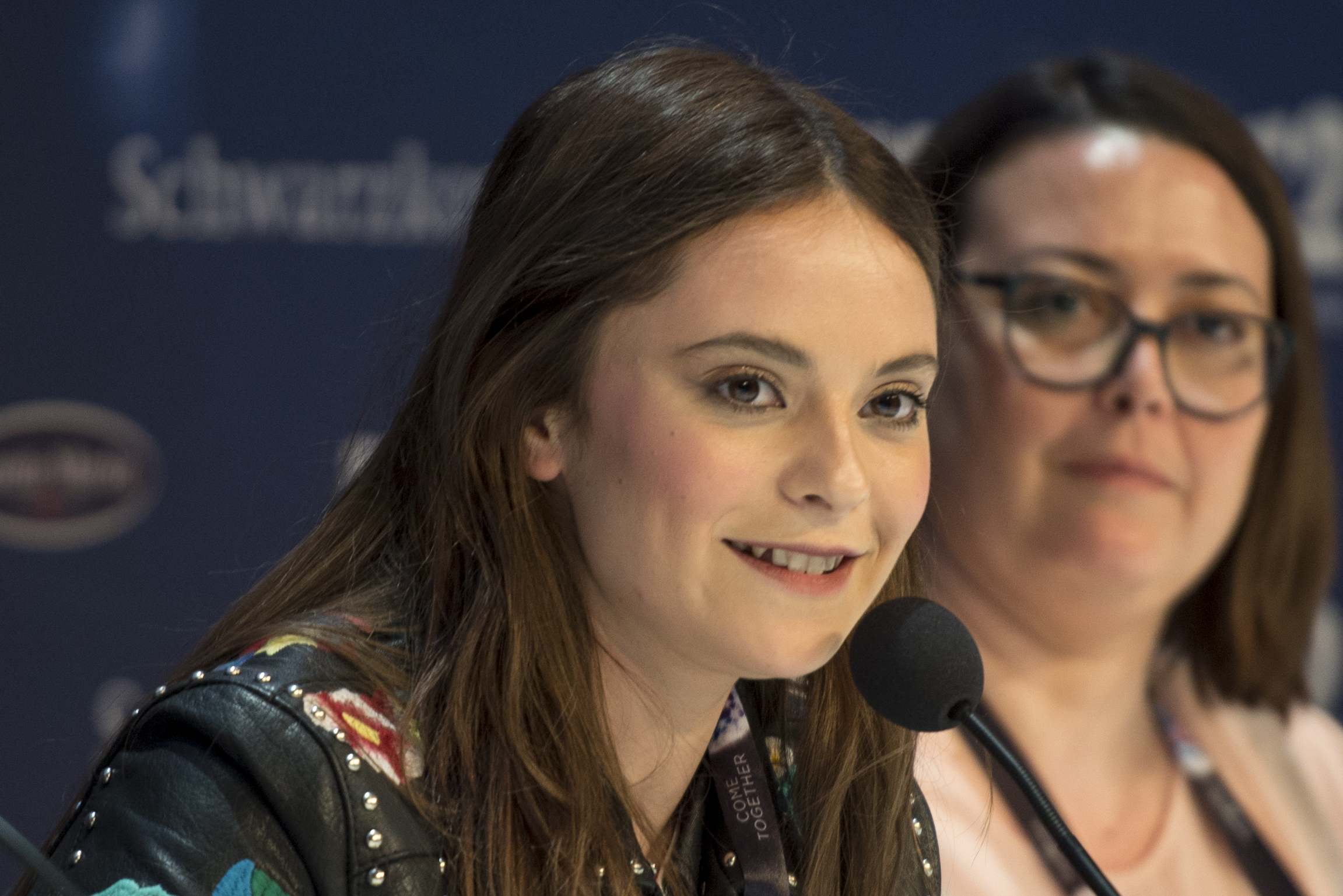 Francesca Michielin at a Meet & Greet during the Eurovision Song Contest 2016 in Stockholm. (Help translate this text)